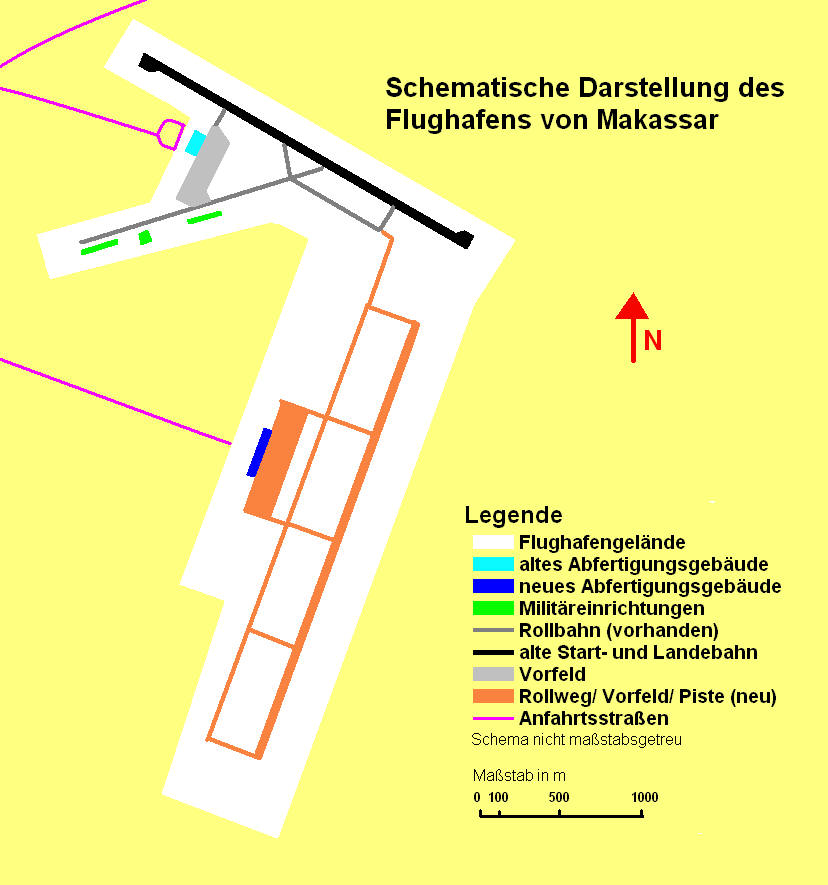 scheme of makassar airport